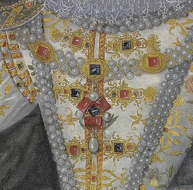 Three Brothers jewel, worn by Queen Elizabeth I. Crop from the c.1587 painting "Elizabeth I of England holding an olive branch"